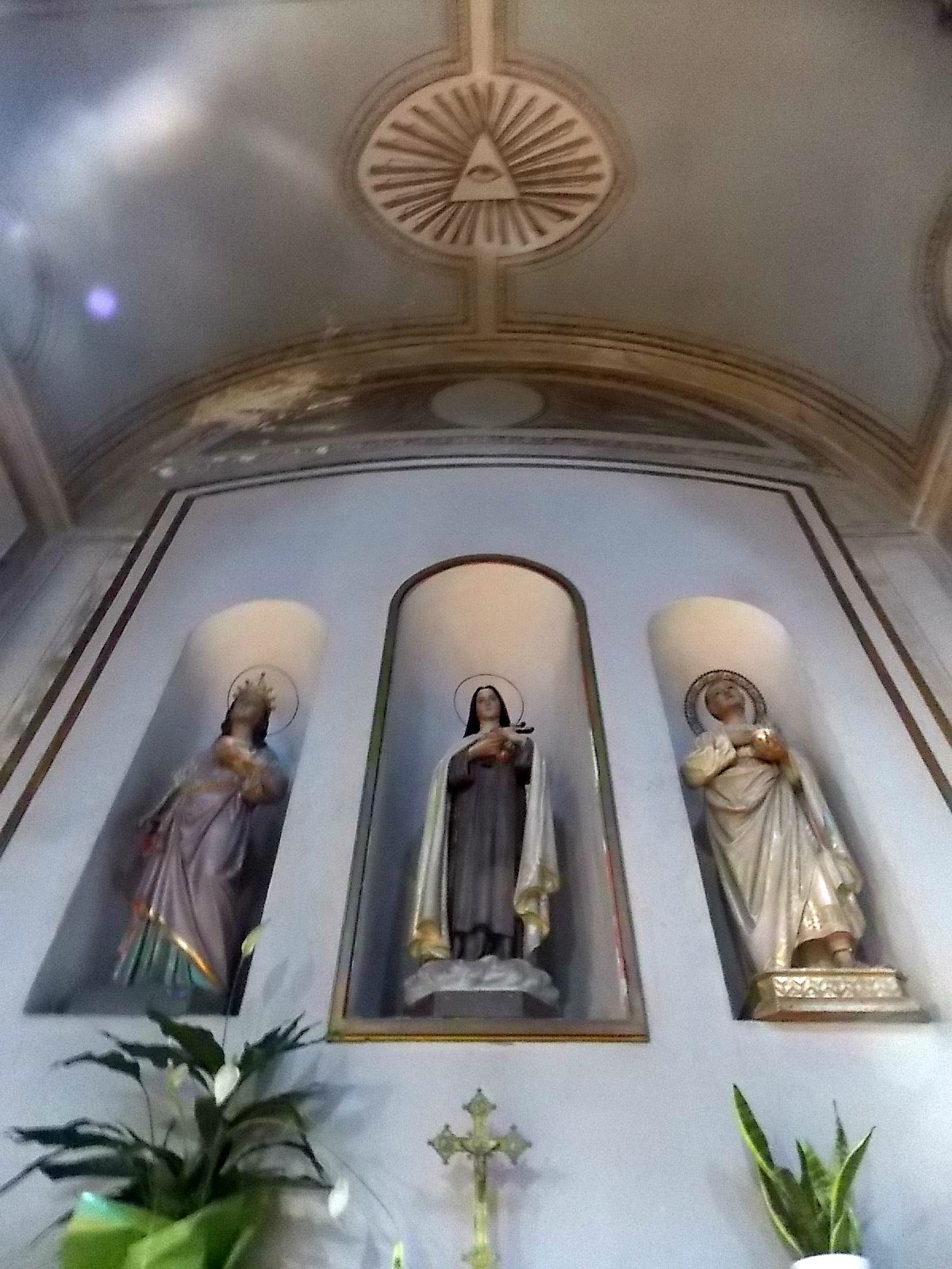 The Catholic Holy Cross Church in Nicosia, Cyprus. Eighth transept - sculptures. From left to right - St. Lucia, St. Thérèse of Lisieux and St. Panteleimon.